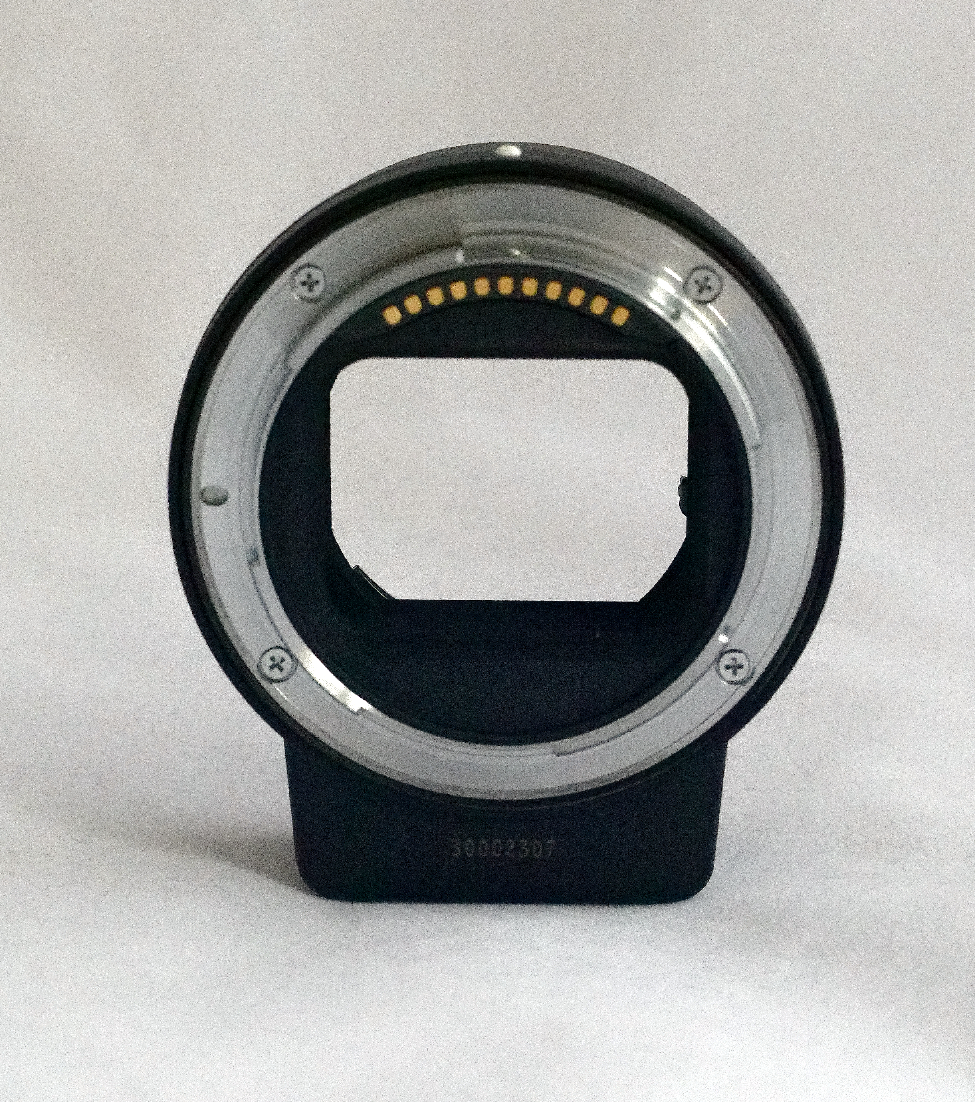 Nikon adaptor FTZ; for F-mount lenses and Z-mount cameras